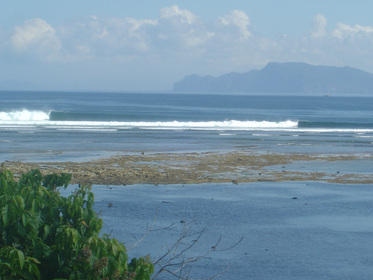 Line up of surf spot commonly known as G-Land, or Grajagan, on the Eastern most tip of Java, Indonesia